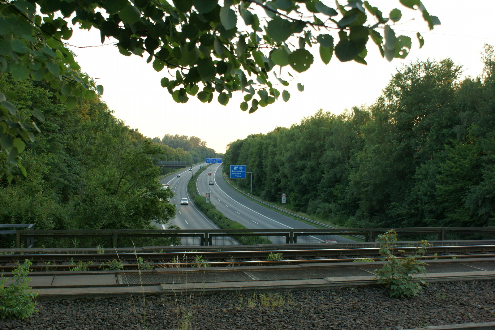 German "Autobahn" No. 42, in Herne. The view direction is to the west. You can see the exit "Gelsenkirchen-Bismarck". In the foreground you can see the railway track.